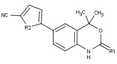 6-(5-cyanopyrrol-2-yl) benzoxazine- 2-thiones, a class of potent and selective PR agonists